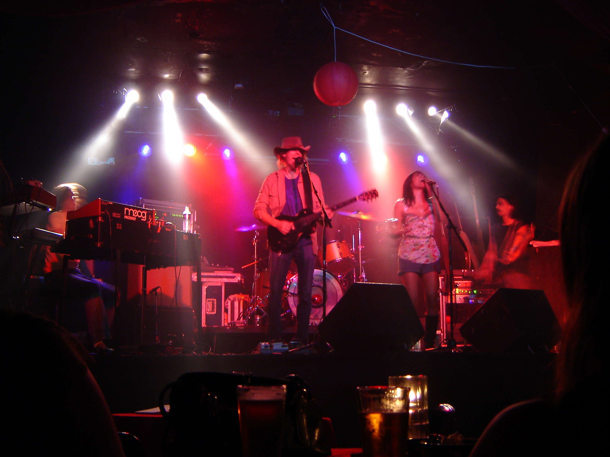 West Indian Girl, performing live in 2006